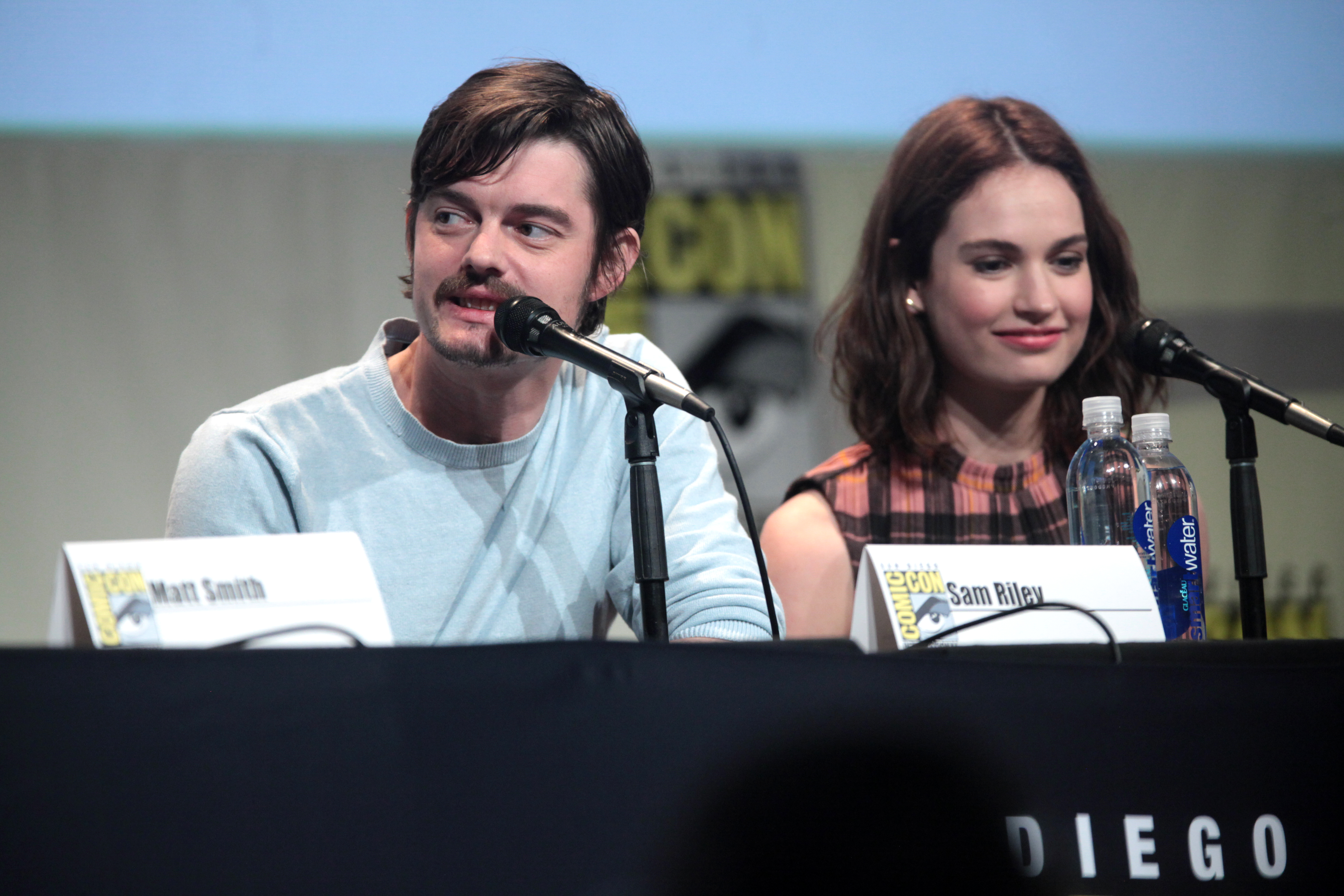 Sam Riley and Lily James speaking at the 2015 San Diego Comic Con International, for "Pride and Prejudice and Zombies", at the San Diego Convention Center in San Diego, California.